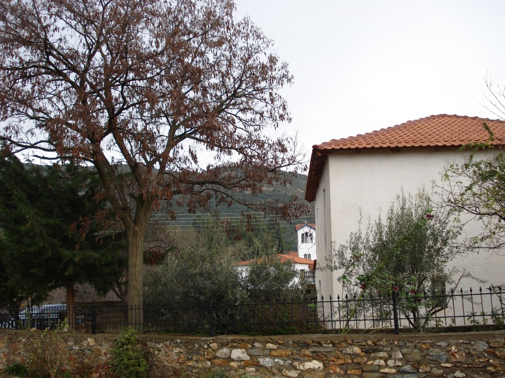 Church in Agora village